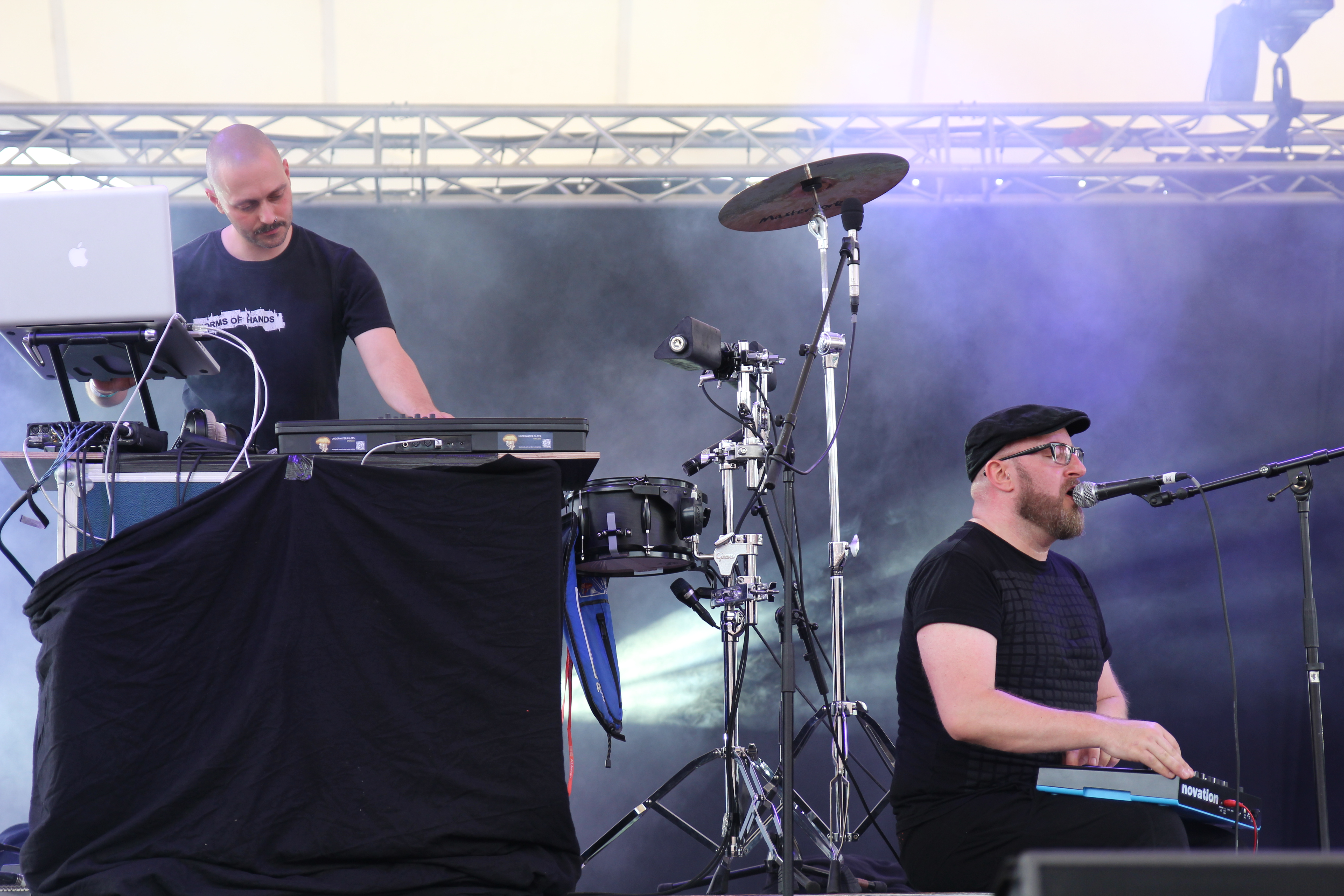 The German electro industrial band Haujobb at the Blackfield festival 2014 in Gelsenkirchen